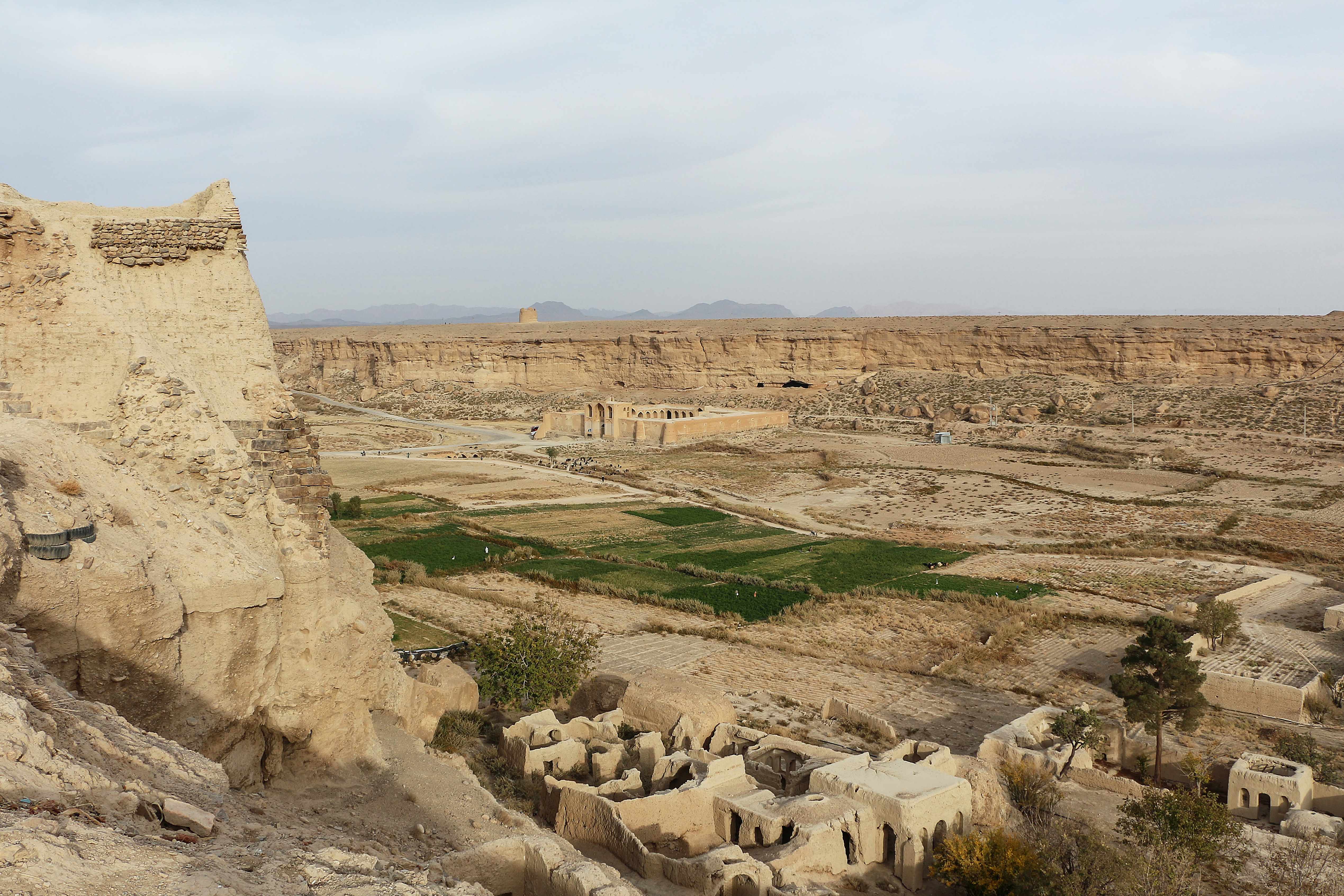 Izadkhvast Caravanserai, Iran